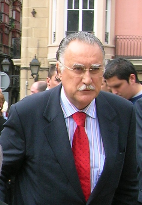 Iñaki Azkuna, major of Bilbao.